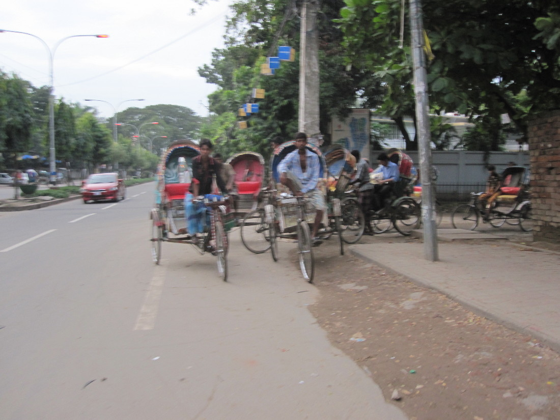 Photo by Mona Mijthab, July 2011